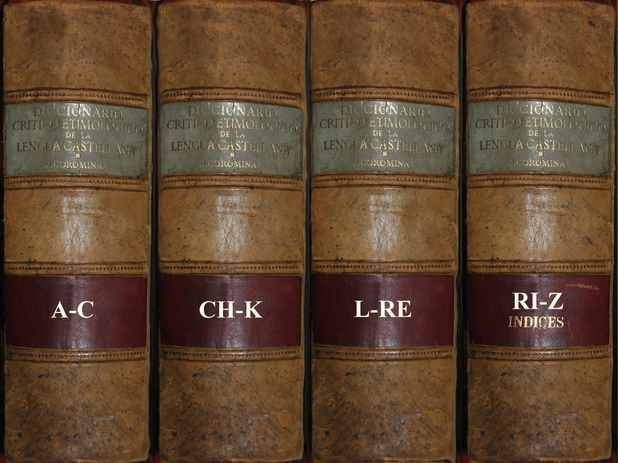 "Diccionario crítico etimológico de la lengua castellana" by Joan Coromines, in four volumes, property of the author, with a custom leather binding.